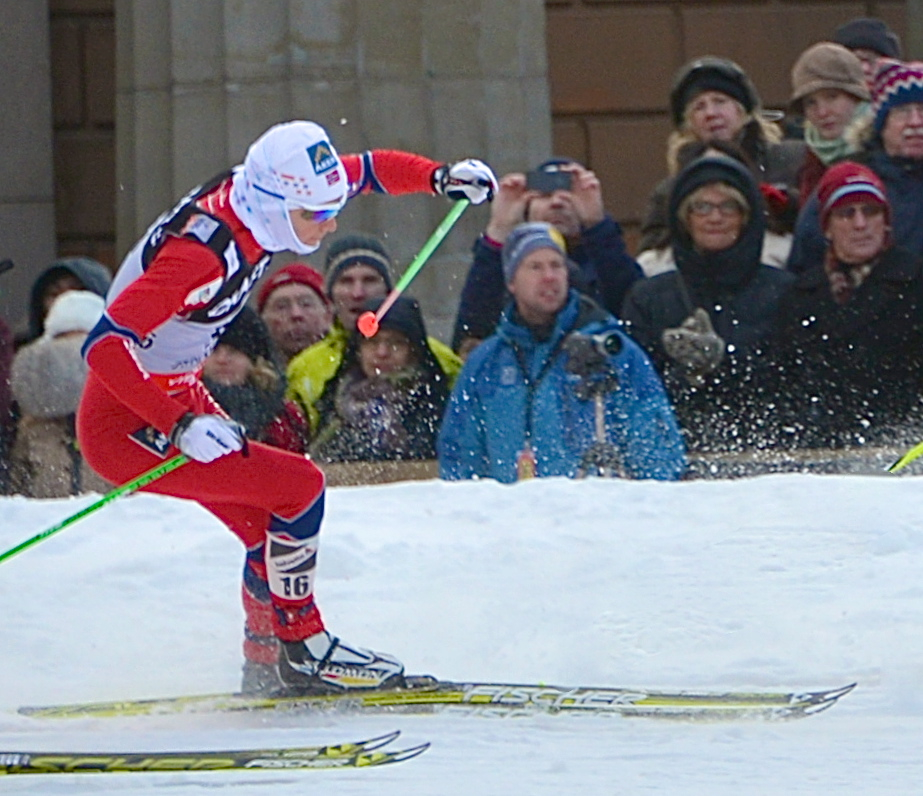 Sjur Røthe at Royal Palace Sprint in Stockholm March 20, 2013